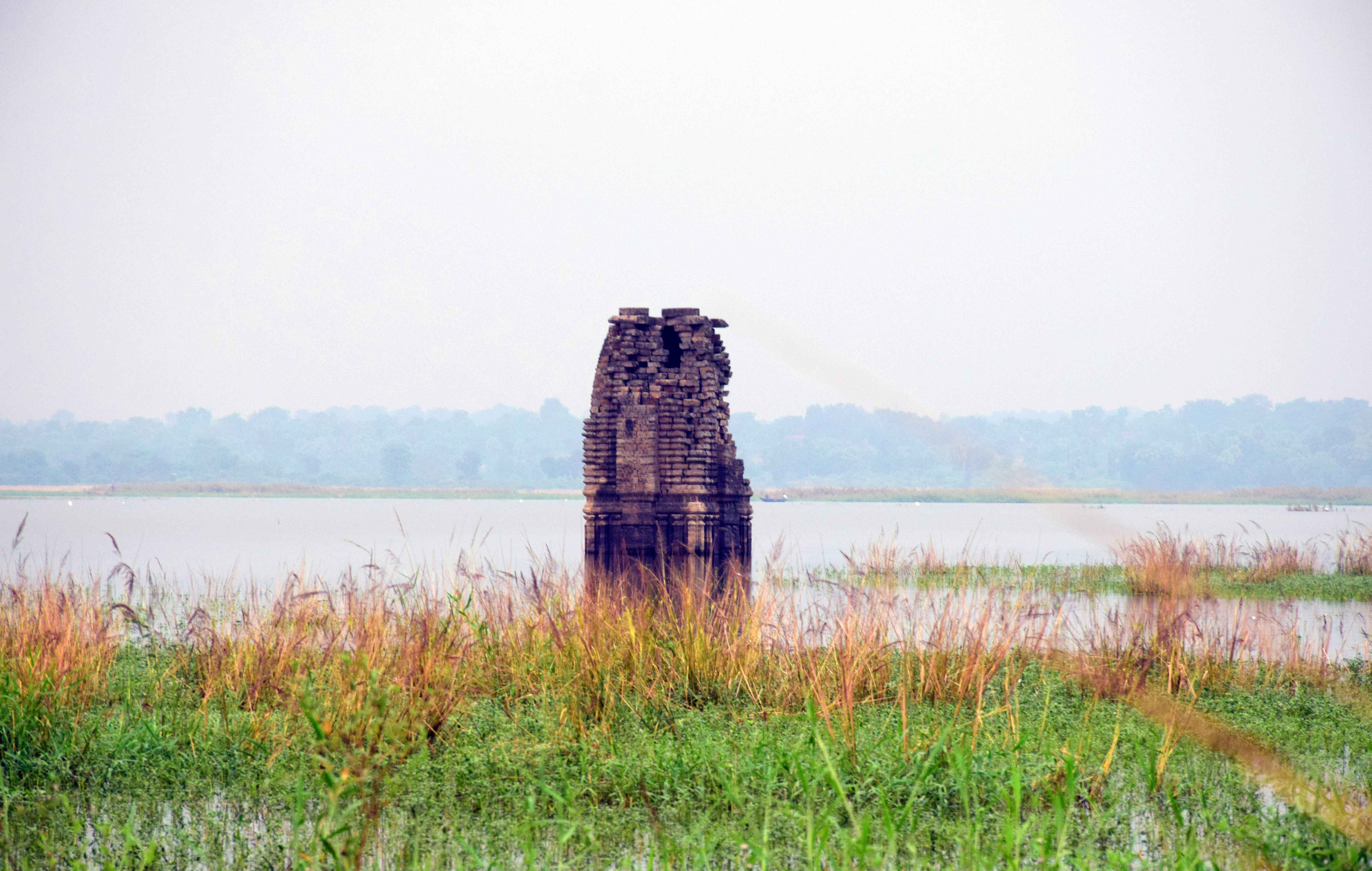 A Submerged Deul temple at Telkupi